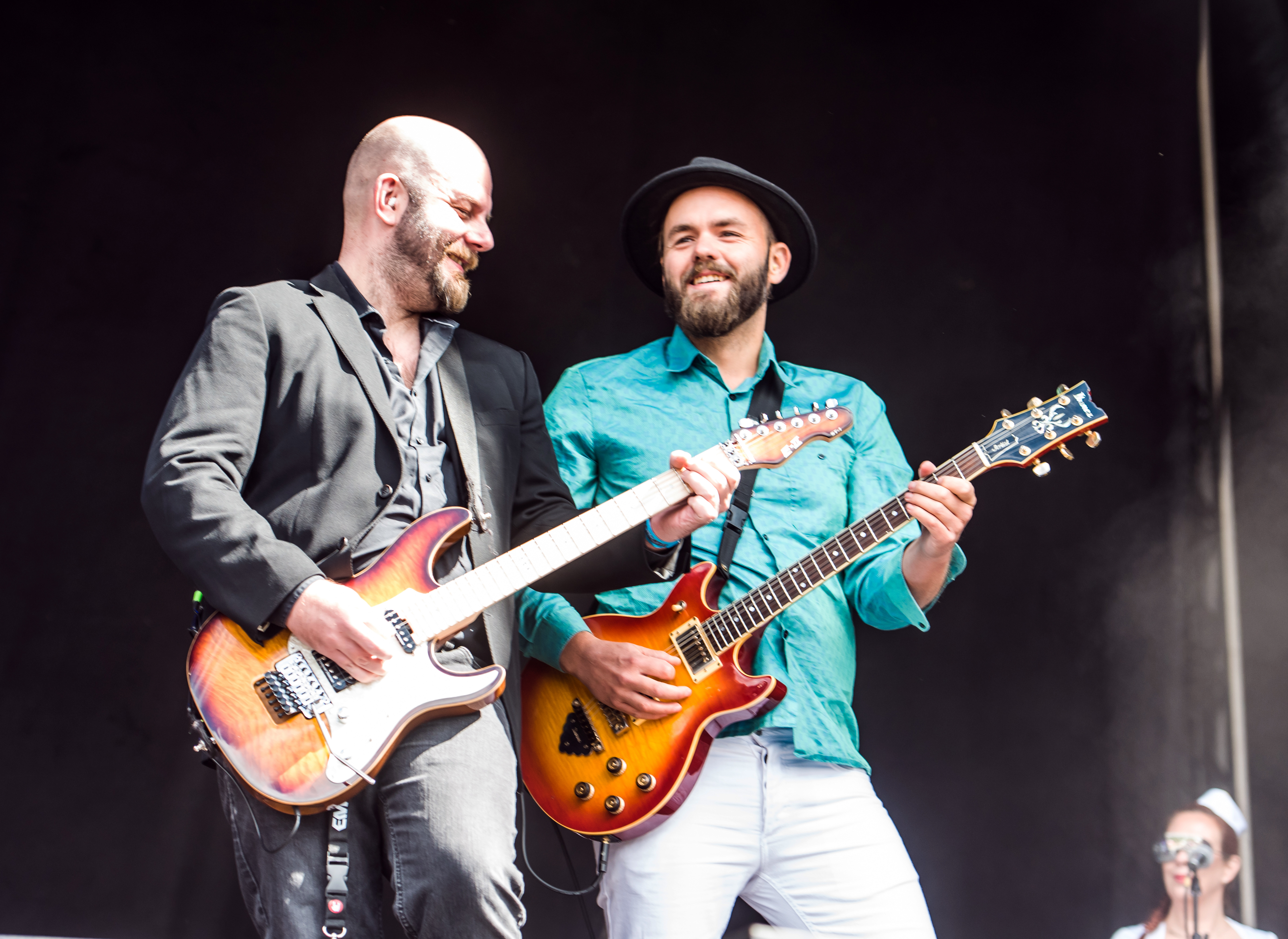 The Night Flight Orchestra playing at Reload Festival 2018